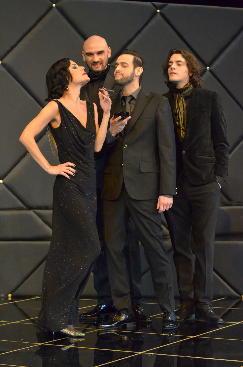 "The Misanthrope", a 17th-century comedy written by Molière; conception and direction Iva Milošević; Drama of the Serbian National Theatre, Novi Sad, 2014/15; Jovana Stipić, Nebojša Savić, Milorad Kapor, Marko Savić Srpski (latinica): „Mizantrop” Molijerova komedija iz 17. veka; koncept i režija Iva Milošević; Drama Srpskog narodnog pozorišta, Novi Sad, 2014/15; Jovana Stipić, Nebojša Savić, Milorad Kapor, Marko Savić Српски (ћирилица): „Мизантроп“ Молијерова комедија из 17. века; концепт и режија Ива Милошевић; Драма Српског народног позоришта, Нови Сад, 2014/15; Јована Стипић, Небојша Савић, Милорад Капор, Марко Савић